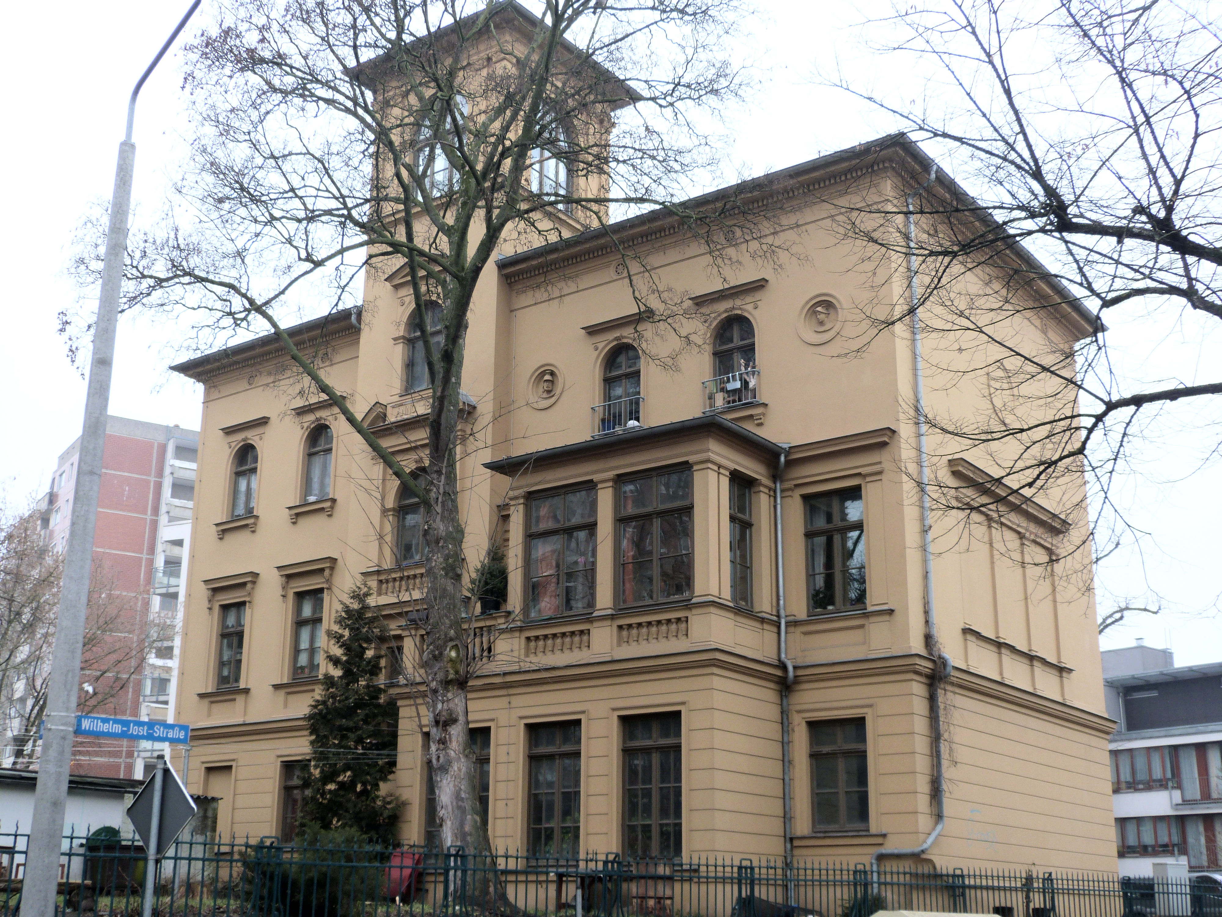 Unterplan No. 12, Halle (Saale), former administration building of the Municipal Gas and Waterworks